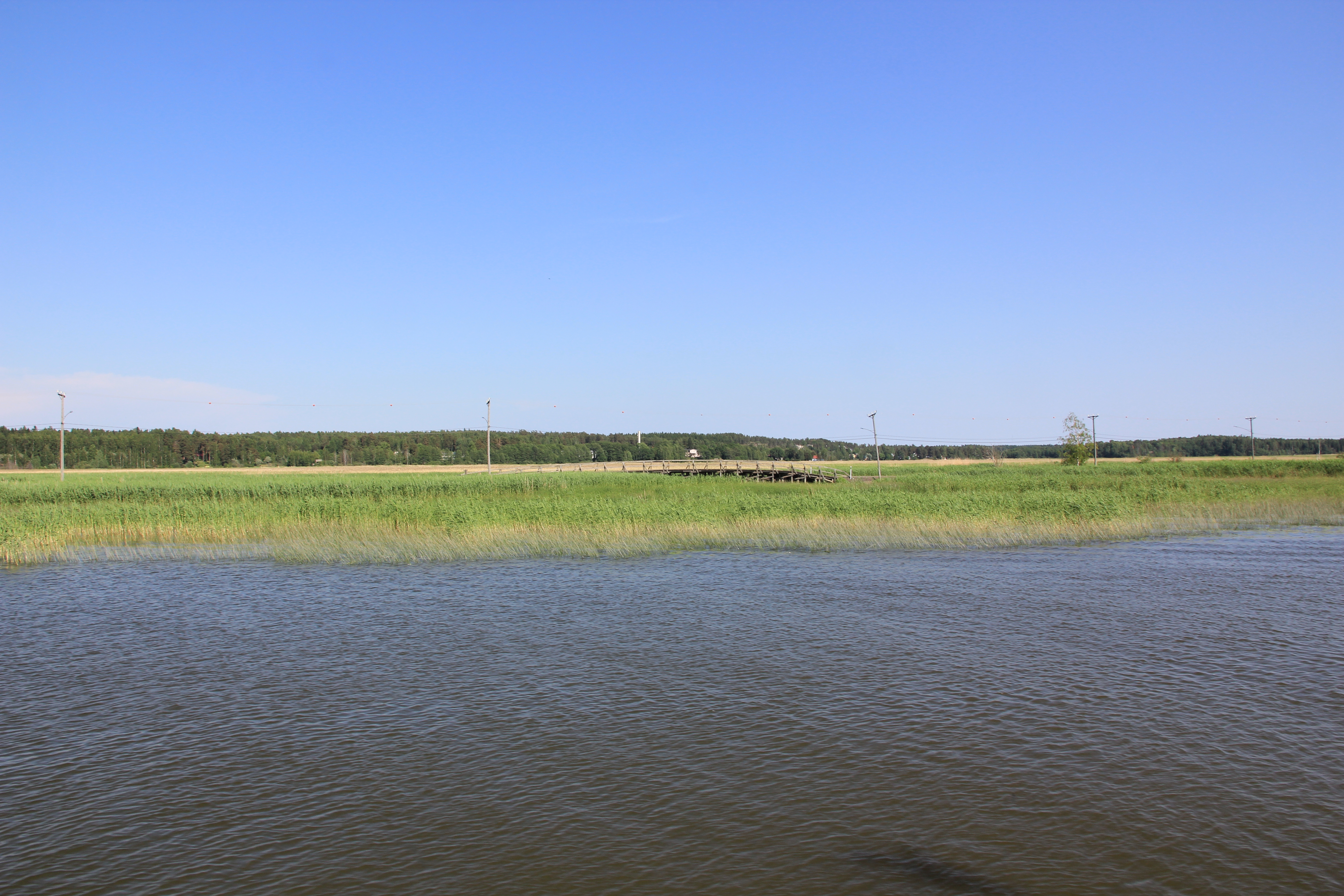 Ruskis nature preservation area at the mouth of Porvoonjoki river.